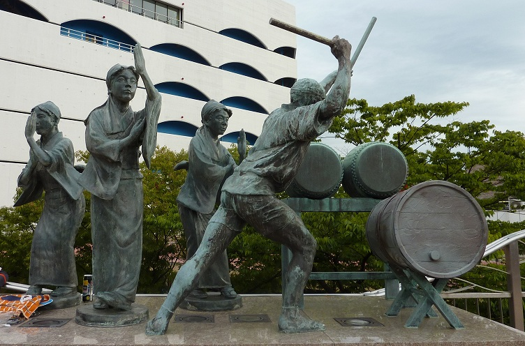 Picture of Heike Ondo statue.